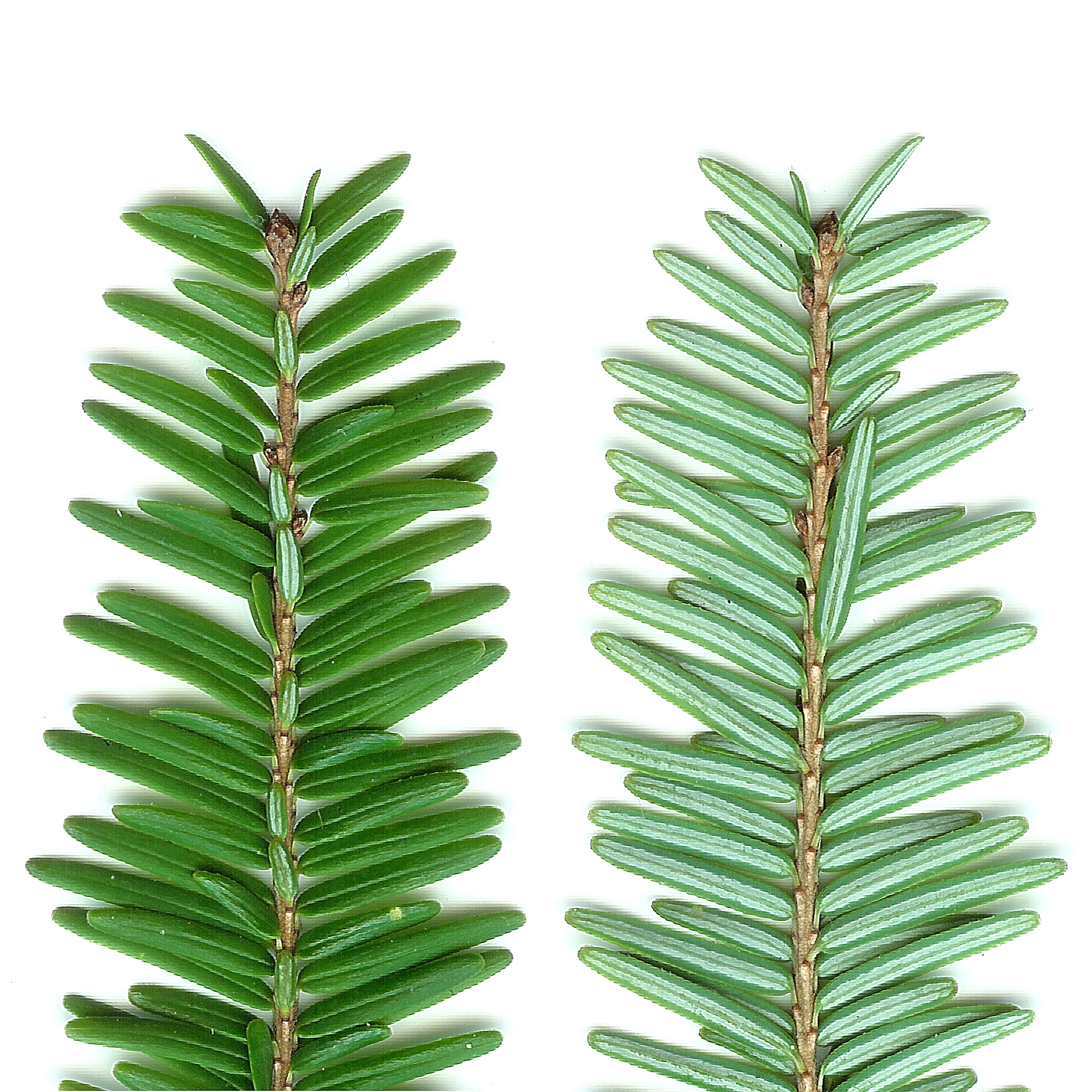 Tsuga canadensis twig